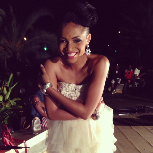 An image of the Nollywood Actress Chelsea Eze